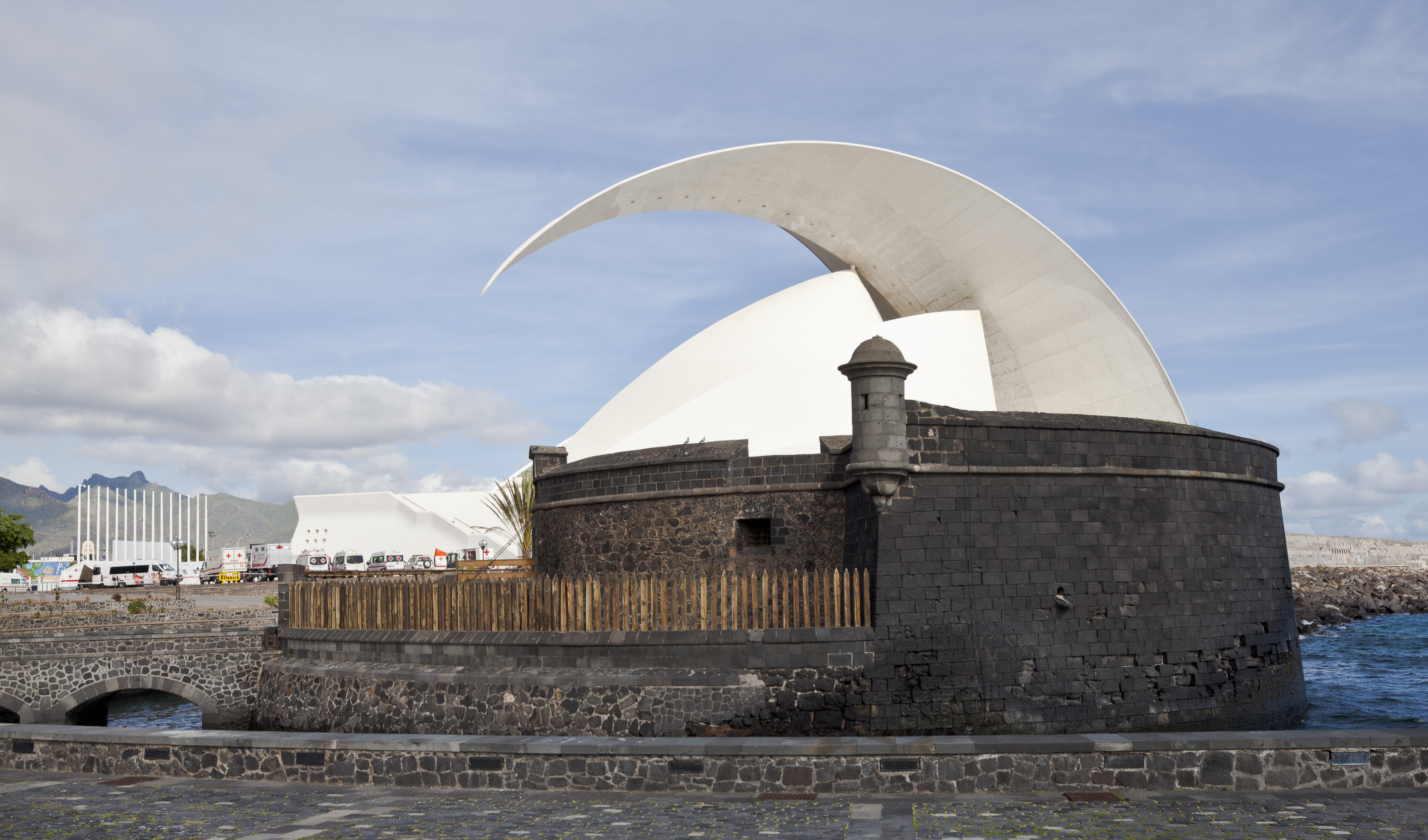 Castle of San Juan, Santa Cruz de Tenerife, Spain